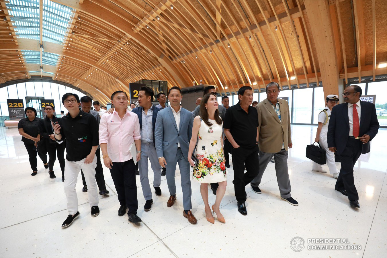 President Rodrigo Roa Duterte takes a tour inside the Mactan-Cebu-International Airport (MCIA)Terminal 2 during its inauguration in Lapu-Lapu City, Cebu on June 7, 2018. Joining the President are Presidential Assistant for the Visayas Michael Dino, Sec. Bong Go of the Office of the Special Assistant to the President, GMR-Megawide Cebu Airport Corporation (GMCAC) President Manuel Ferrer, Tourism Secretary Bernadette Puyat, Transportation Secretary and GMCAC Board Chairman Srinivas Bommidala.